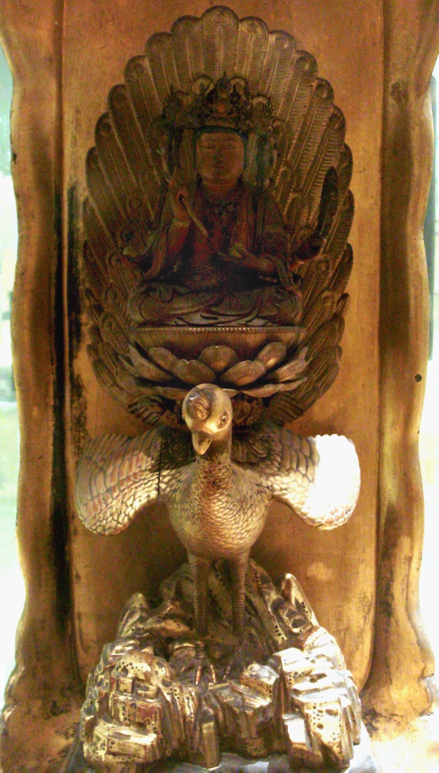 Mahamayuri_statue.